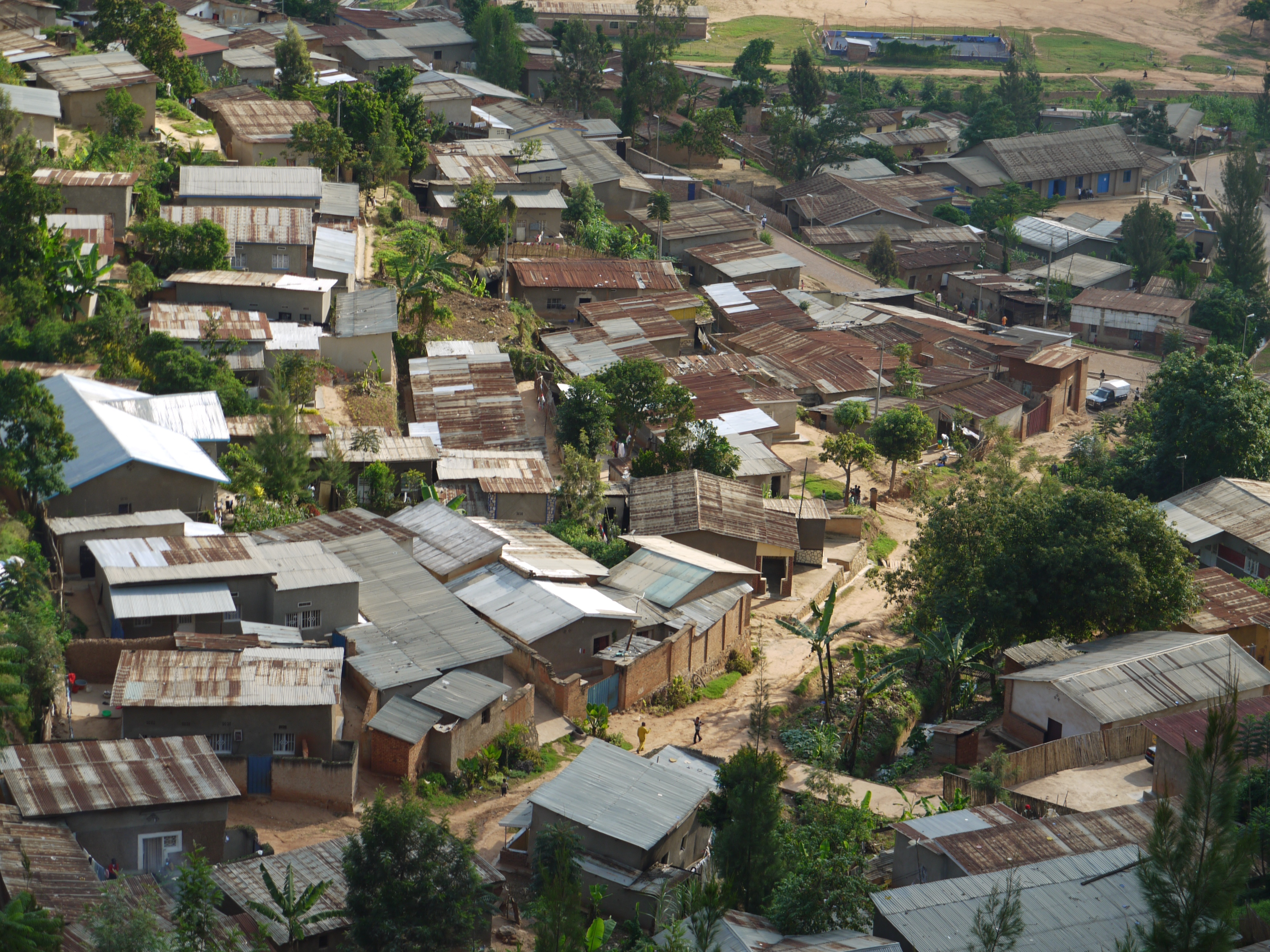 This is a photo of a suburb of Kigali in Rwanda